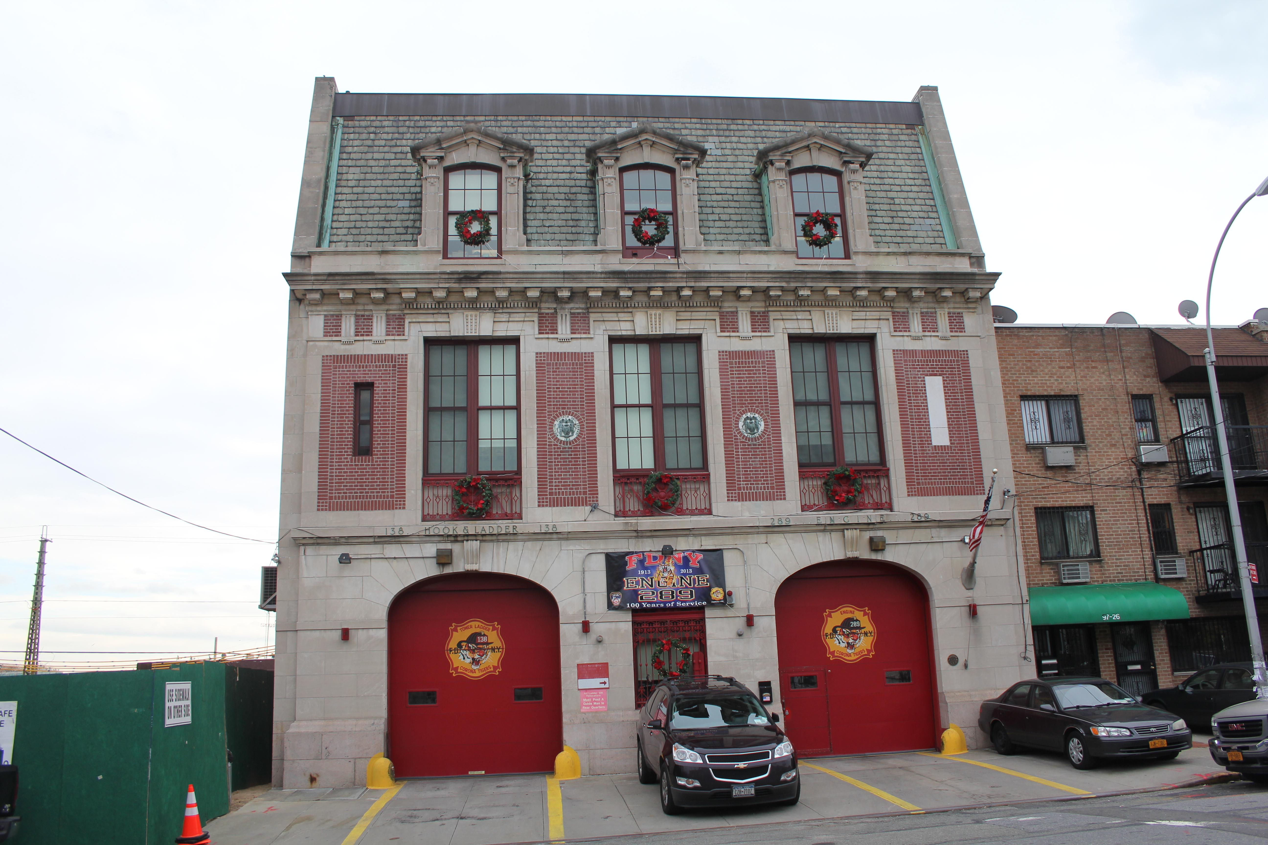 Fire house at 97-28 43rd Ave., Corona, Queens, New York City. Home of NYFD Fire Engine Company 289 & Ladder Company 138. Designated NYC landmark.